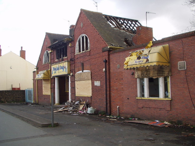 Conservative Club, Pensnett. This social club was later used as a playschool, before being abandoned to vandals.